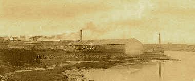 Scan of picture of a factory producing Iodine in France in le Conquet "Usine d'iode Tissier au Conquet, début des années 1900"